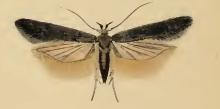 Stainton’s Natural History of the Tineina (1855–1873): Xenolechia aethiops